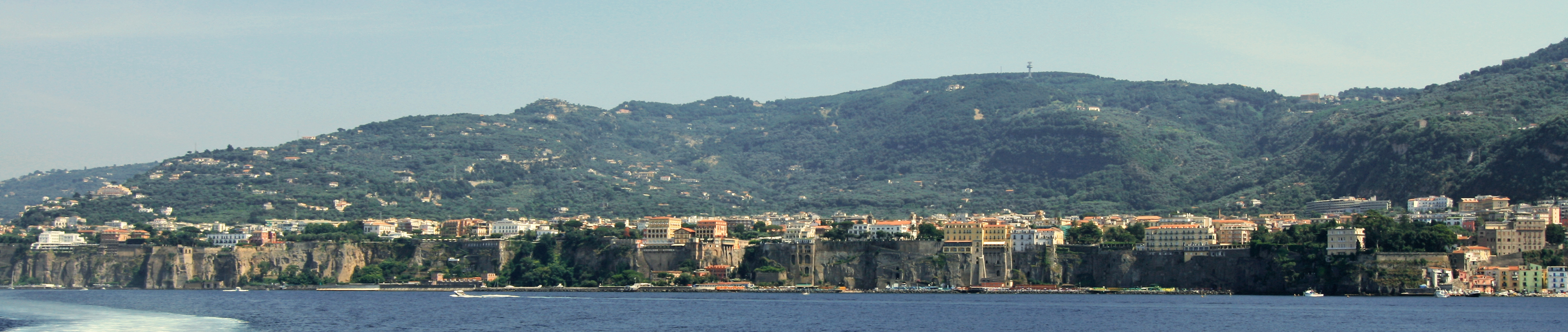 Sorrento seen from the Bay of Naples.